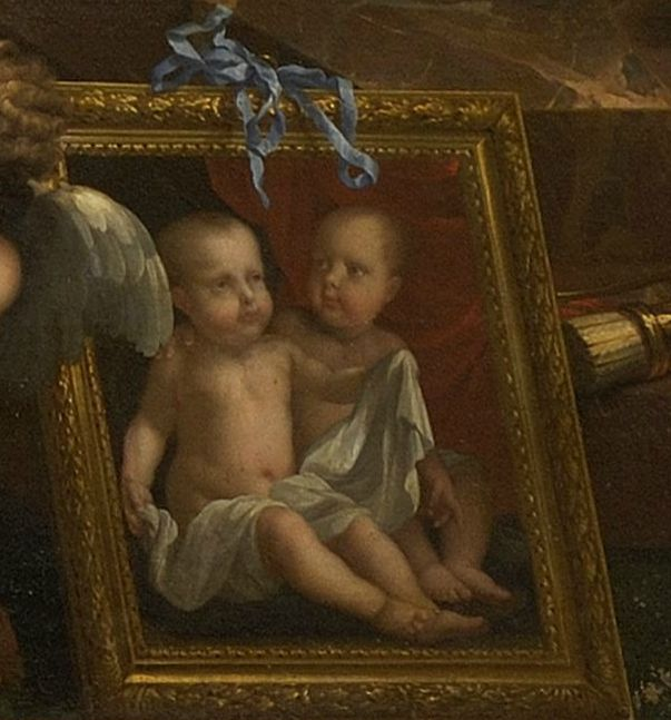 Anne Élisabeth de France (1662-1662) with her sister Marie Anne de France (1664-1664) daughters of Louis XIV of France.